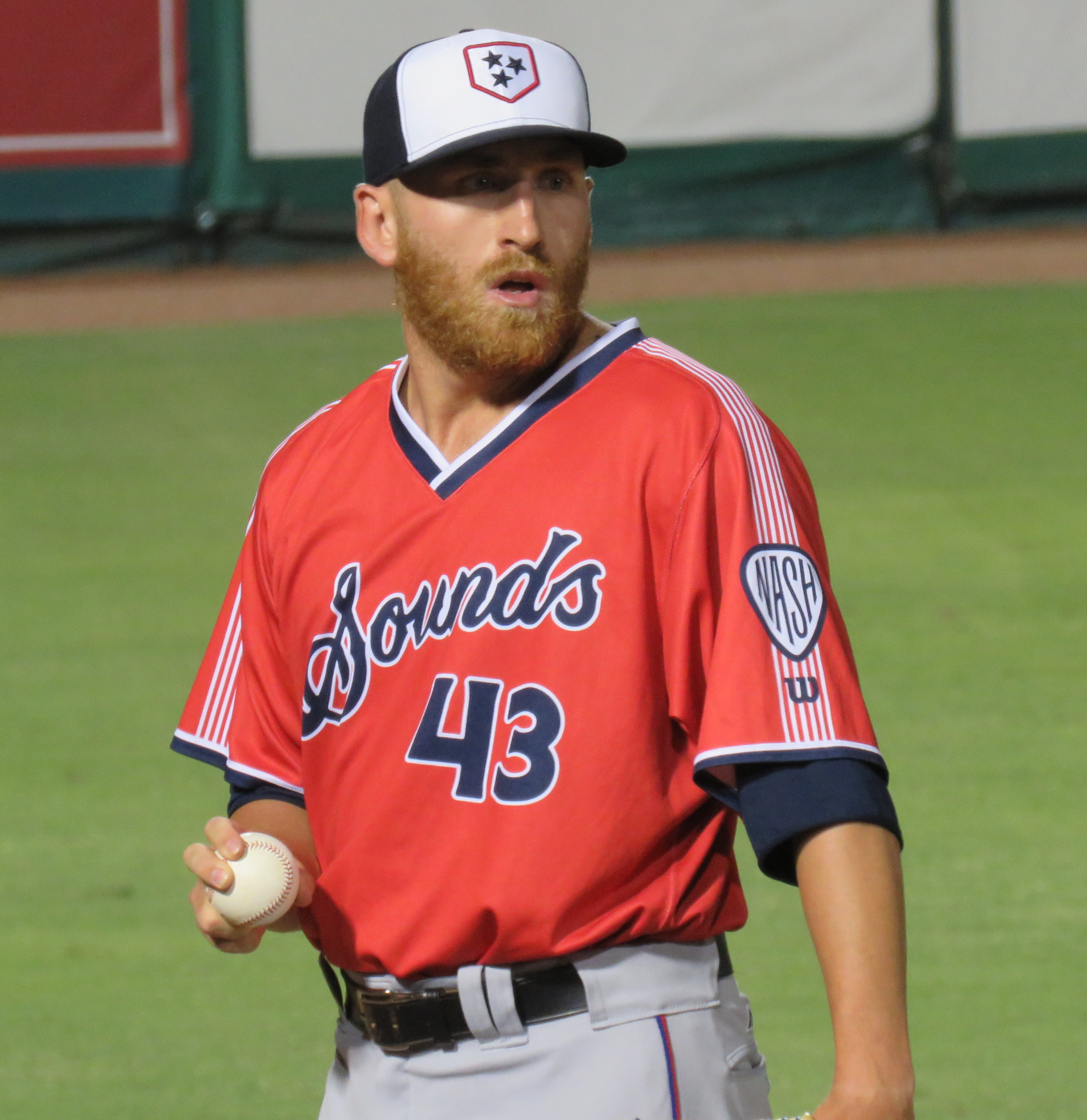 Garrett in the field